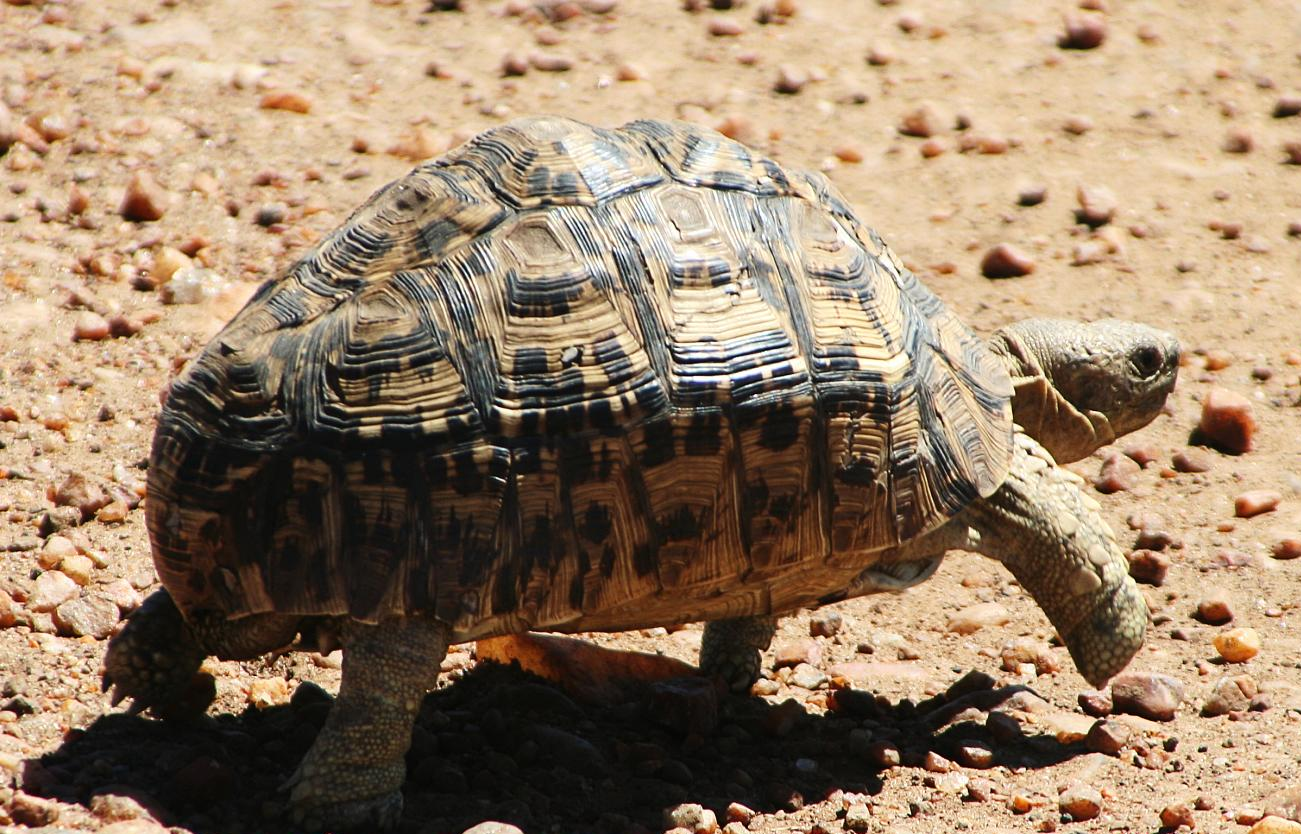 Leopard tortois (Geochelone pardalis), taken in the Masai Mara